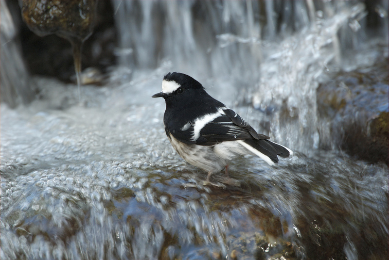 杉林溪 Little Forktail (Enicurus scouleri)